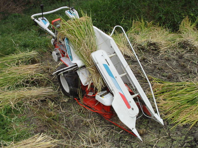 A modern Japanese compact binder